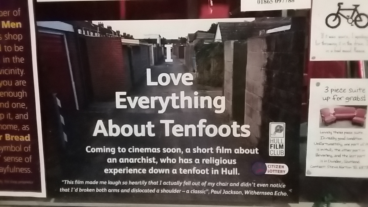 A spoof advertisement in a fake shop window, devised by artist Preston Likely as part of the opening event for Hull City of Culture 2017.